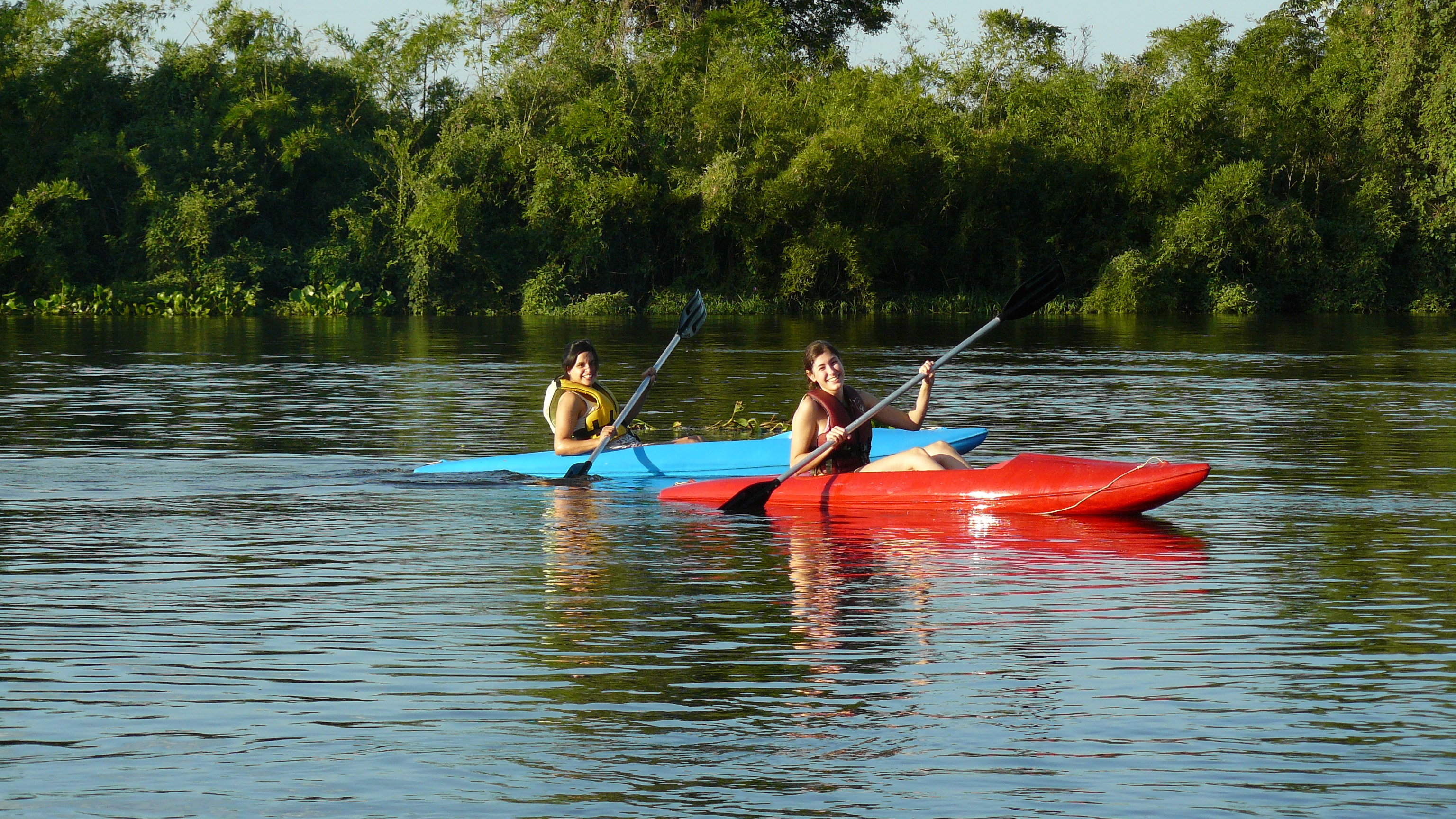 people rowing in the Manduvira river in front of Puerto naranjahai